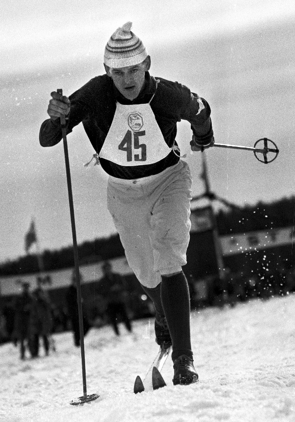 Assar Rönnlund at the 15 km race of the Swedish cross-country skiing national championships.